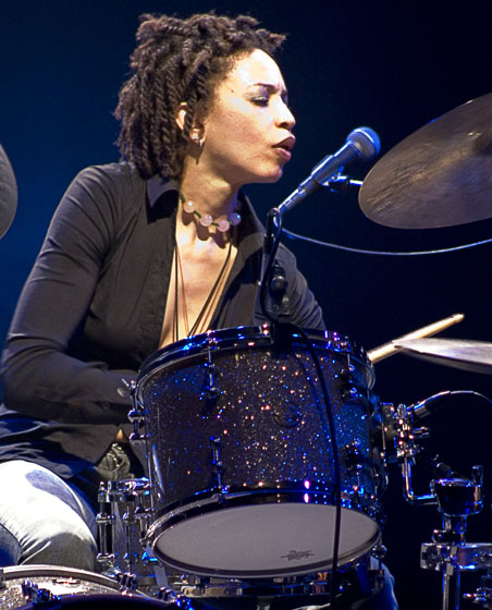 Cindy Blackman performs at Sesc Pompéia on August 1, 2007.